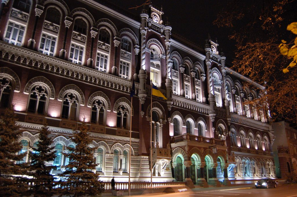 National Bank of Ukraine at night